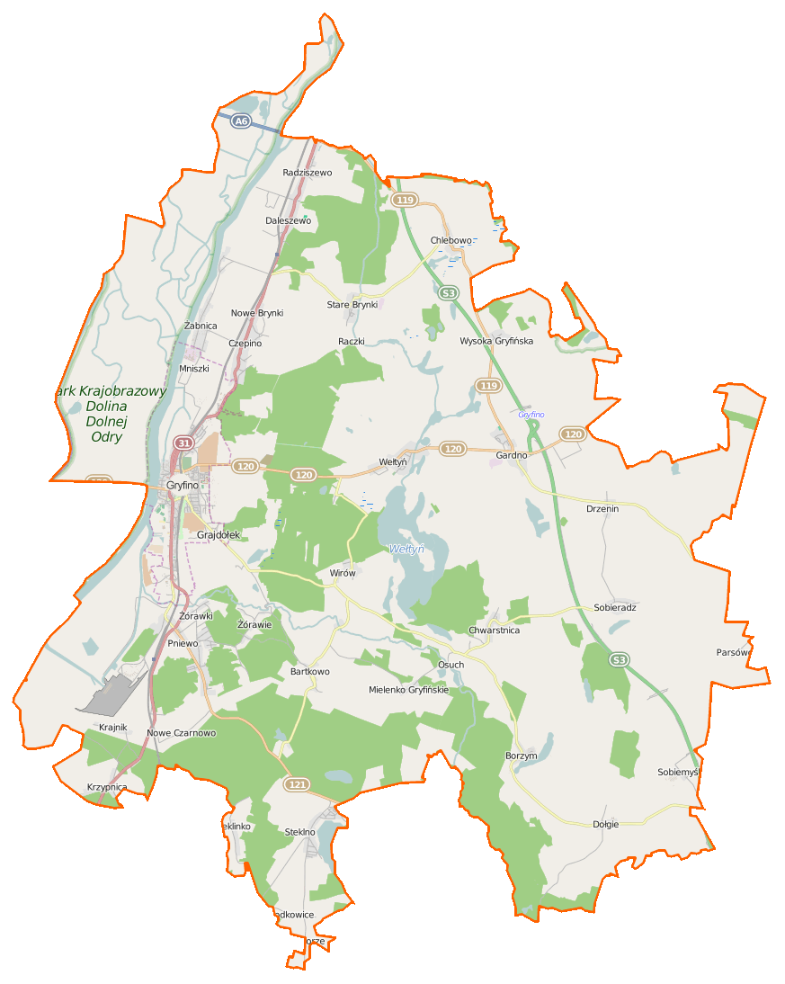 Map of Gmina Gryfino, Poland This map of Gryfino (gmina) was created from OpenStreetMap project data, collected by the community. This map may be incomplete, and may contain errors. Don't rely solely on it for navigation.